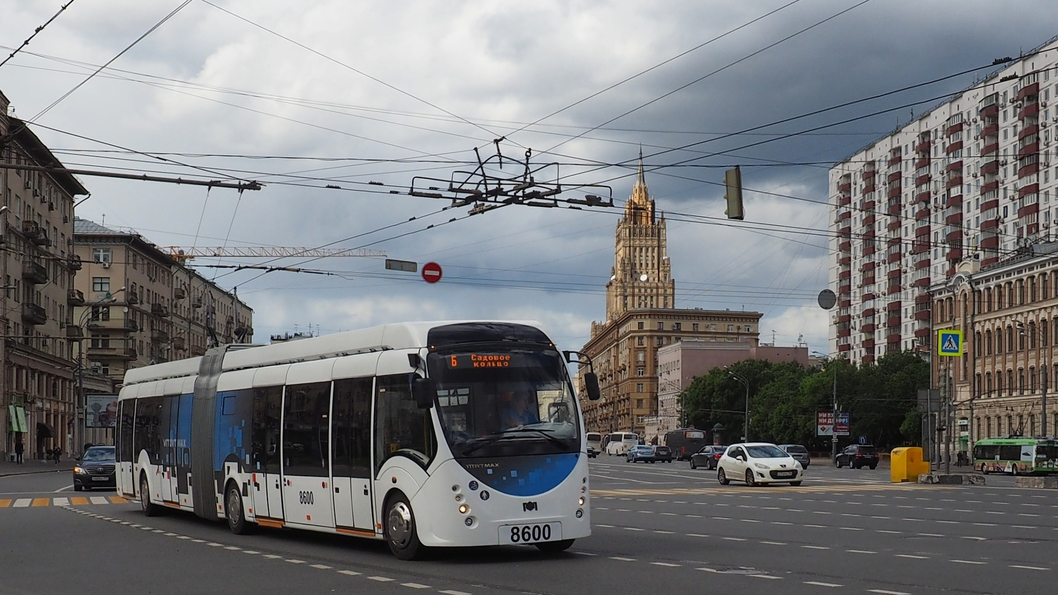 Belkommunmash #VitovtMaxDuo #trolleybus tests in Moscow